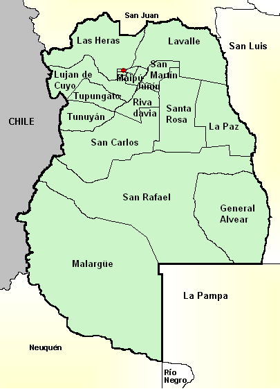 It shows Mendoza province in Argentina, its administrative boundaries and its capital.